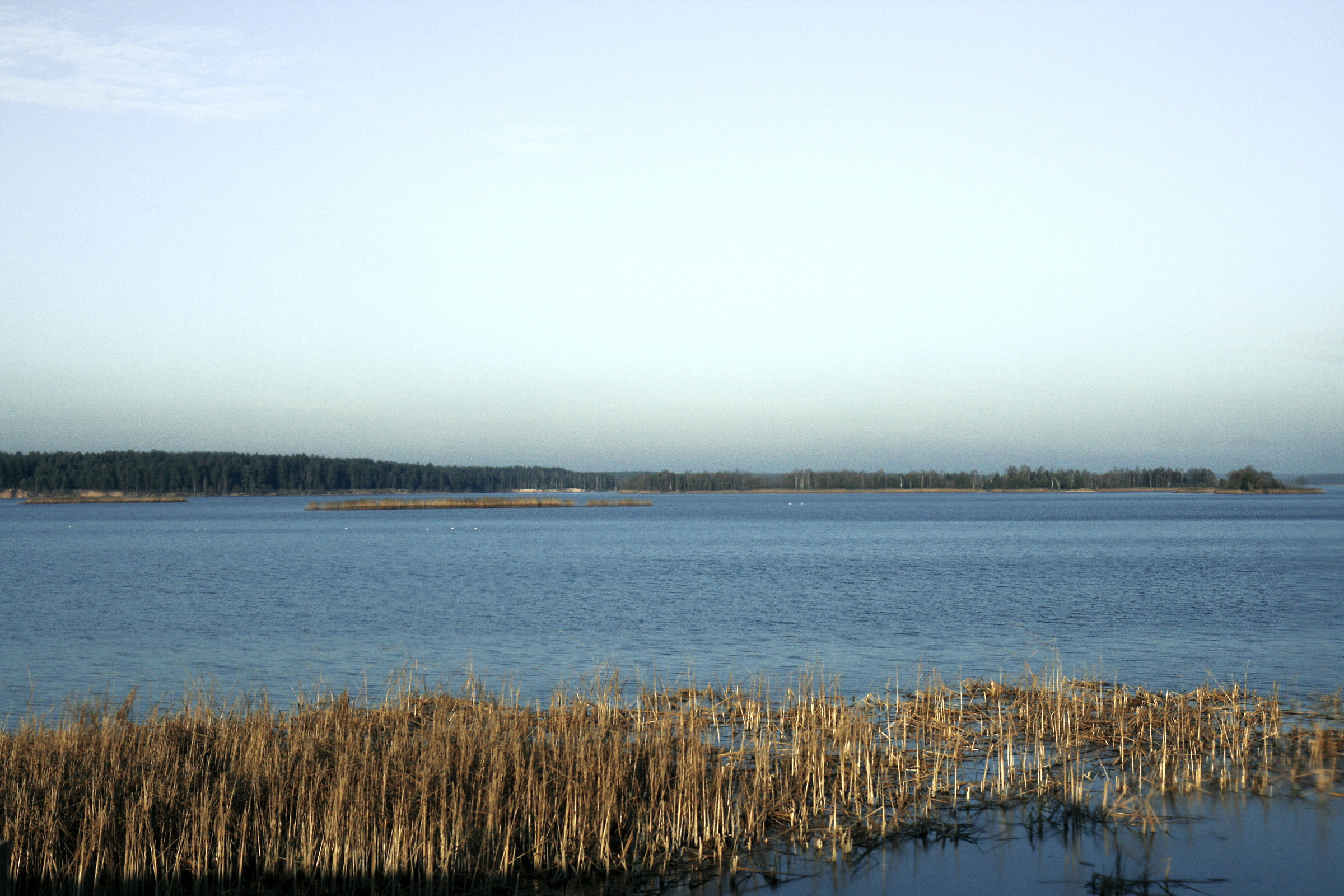 Vialejskaje reservoir, Minsk province, Belarus